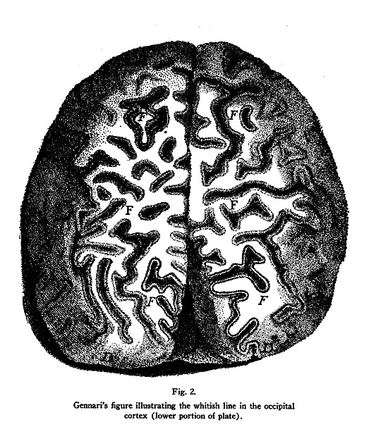 Facsimile of an illustration showing Francesco Gennaris discovery